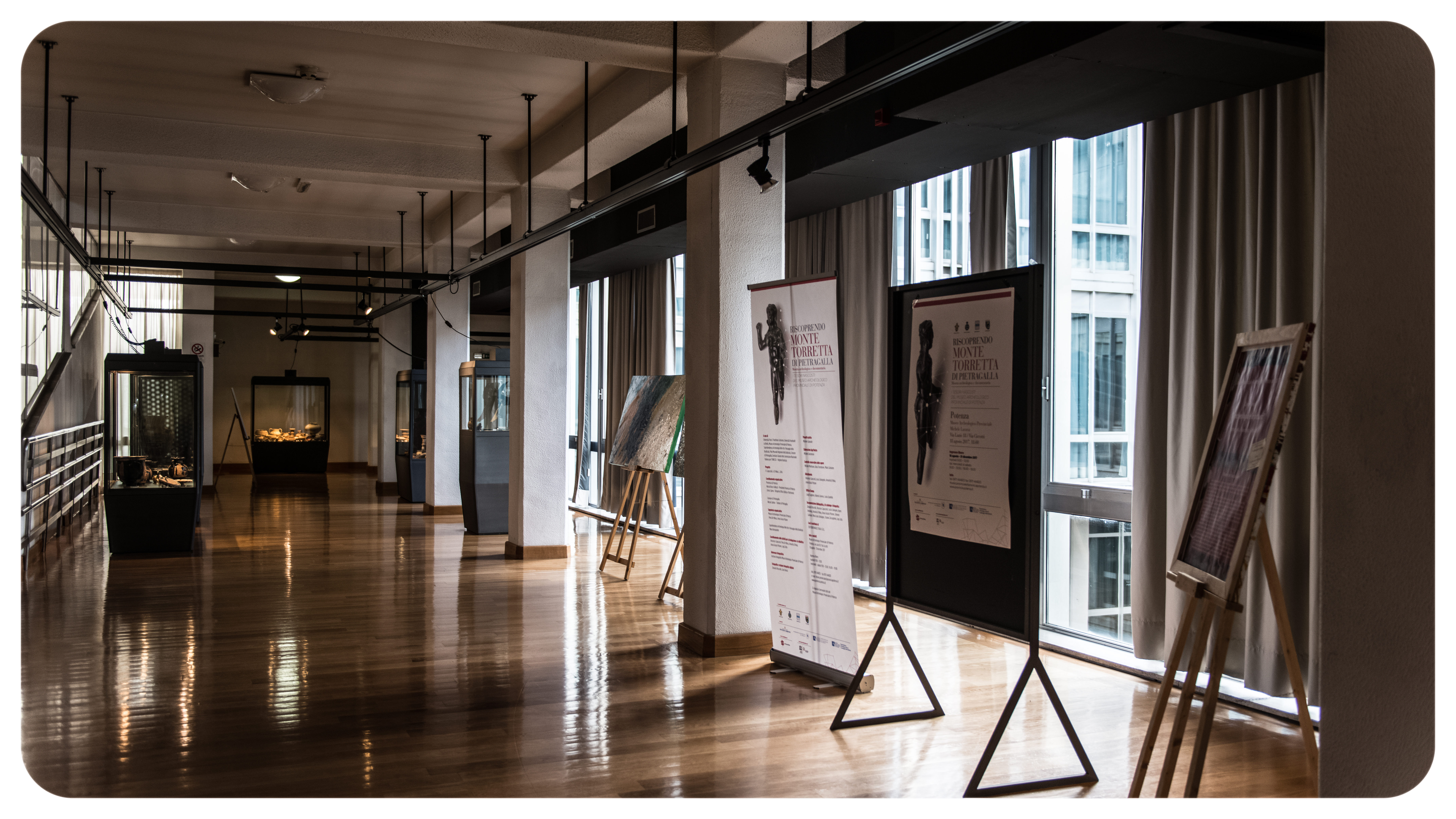 This is a photo of a monument which is part of cultural heritage of Italy.